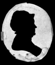 Martha Jefferson Carr (May 29, 1746 - September 3, 1811), sister of Thomas Jefferson, wife of Dabney Carr.